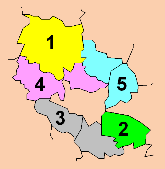 Bydgoszcz County - County Council electoral districs